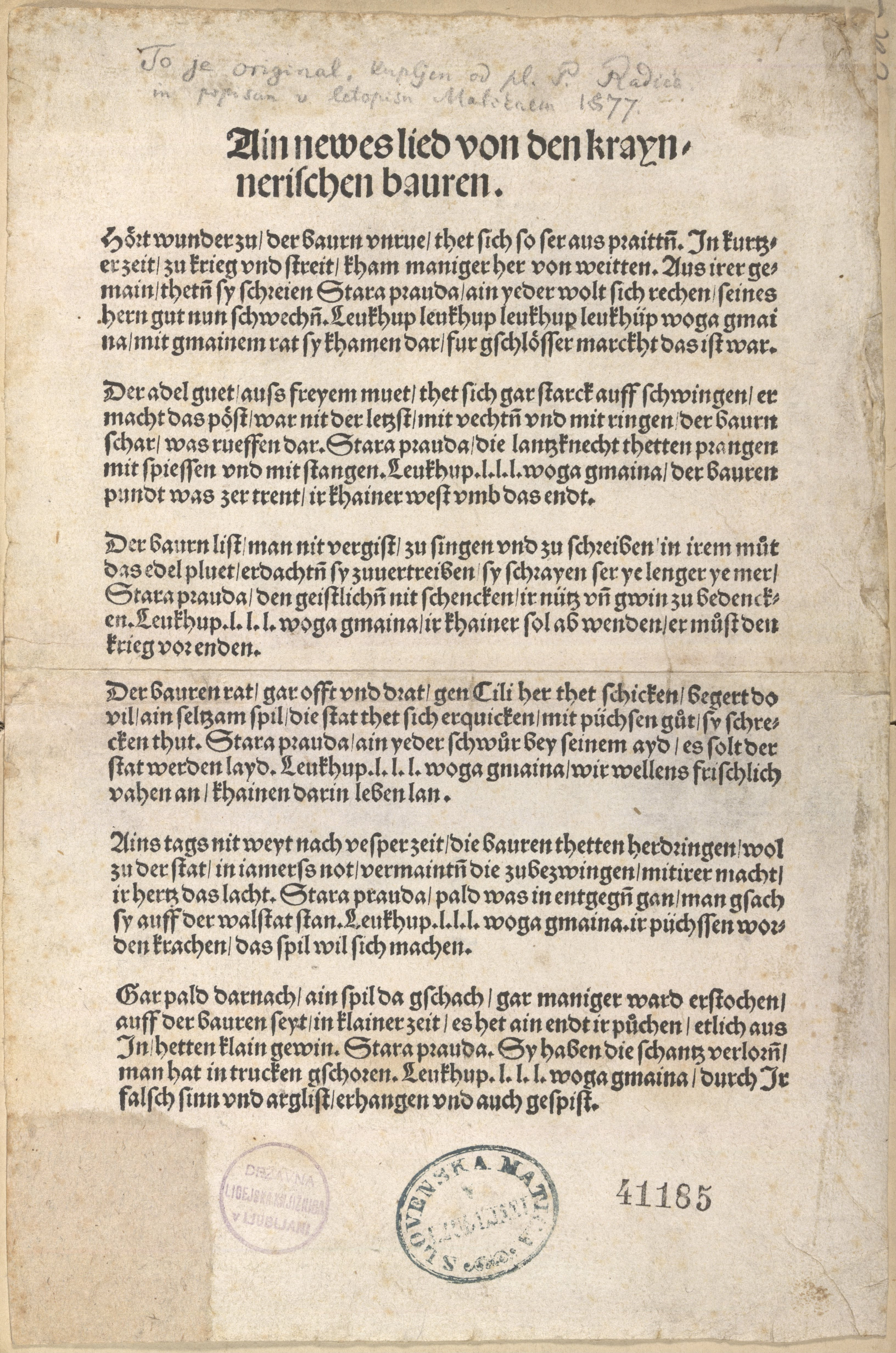 A leaflet containing the first printed words in Slovenian (peasant rebellion paroles). There are only two known copies preserved (Ljubljana and Berlin).